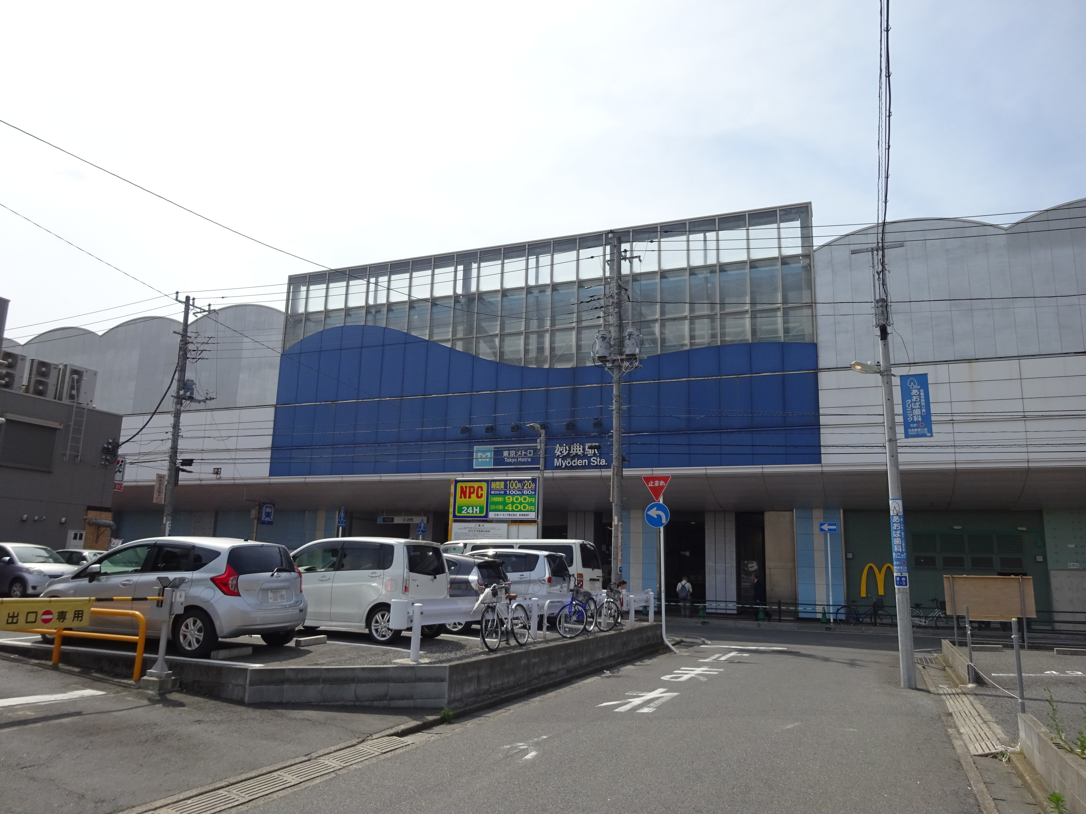 South entrance of Myōden Station